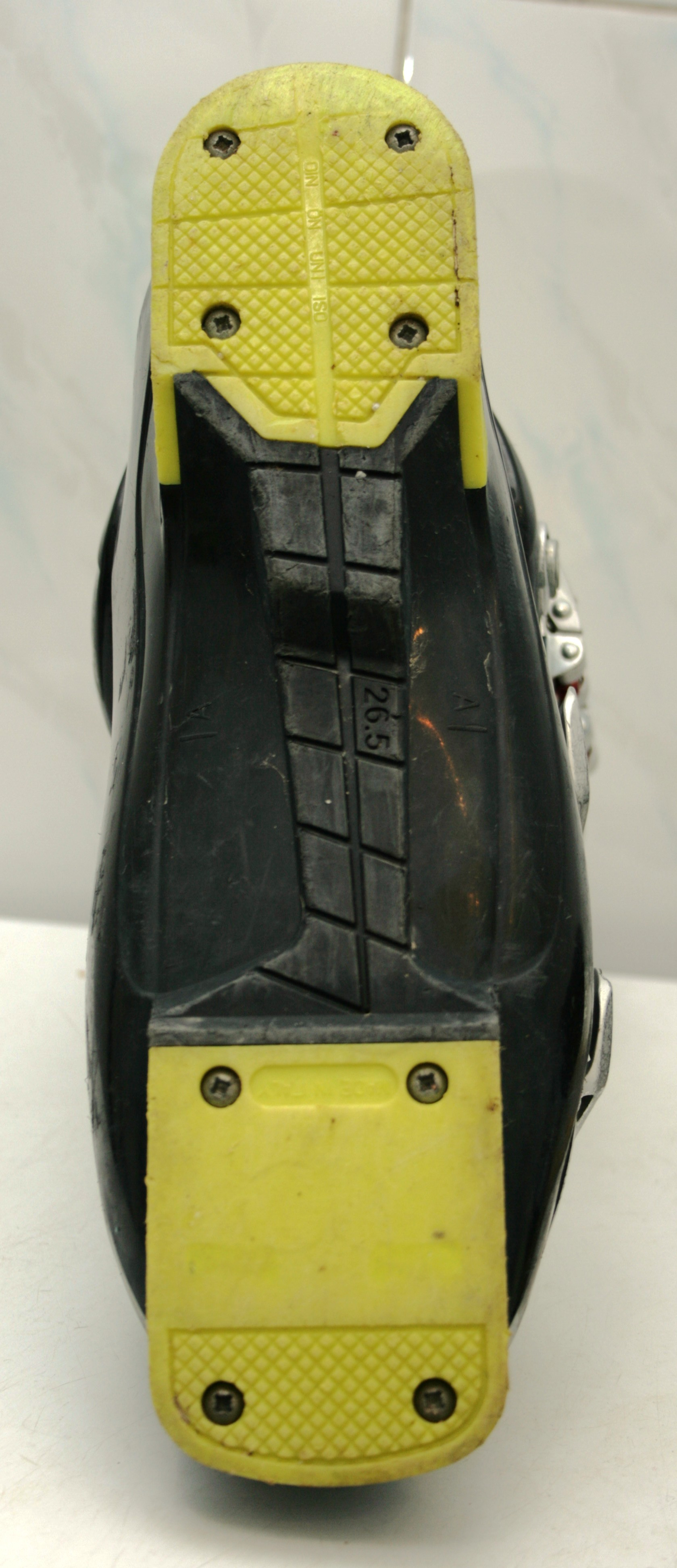 ski boot - bottom view